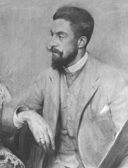 Chalk and pastel on paper. Inv. 4720